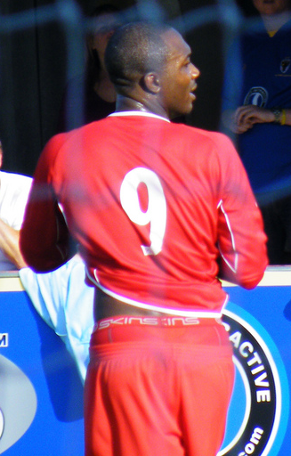 Richard Pacquette. Image cropped from original at flickr.